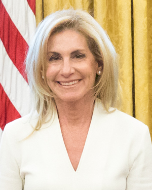 Swearing-In Ceremony - White House - December 11, 2017